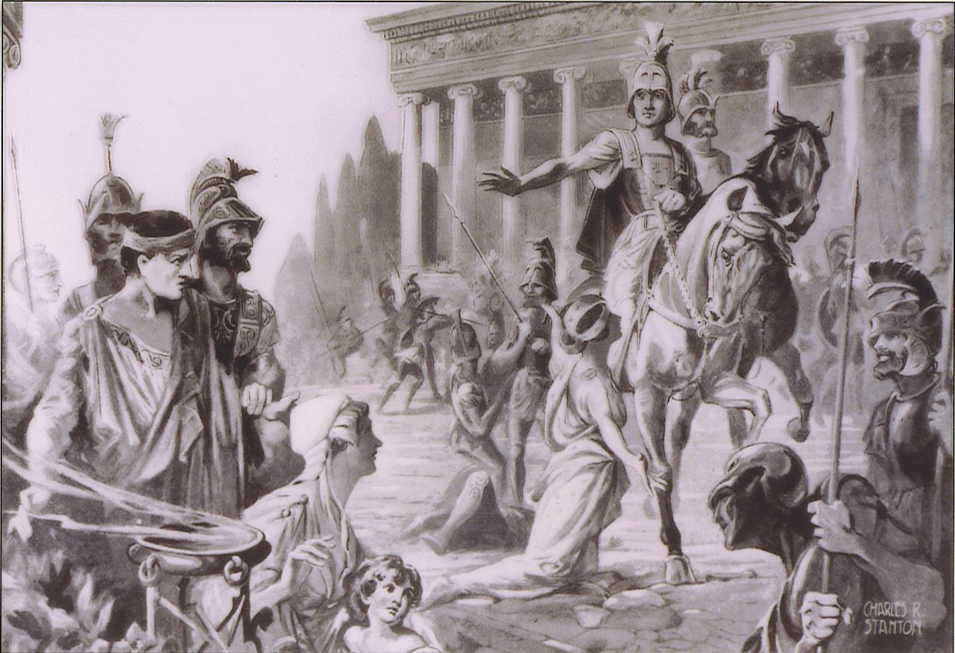 Alexander at the sack of Thebes (335 BC)